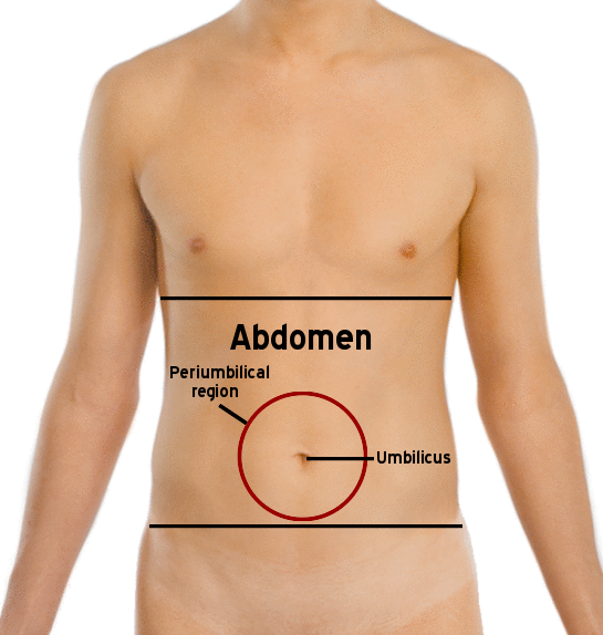 Abdomen with the umbilicus labelled and the periumbilical region circled.